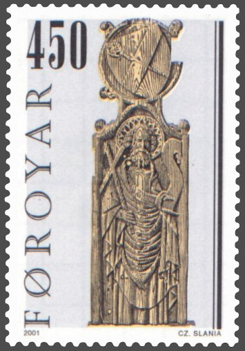 The Kirkjubøur pew ends - Saint Andrew.